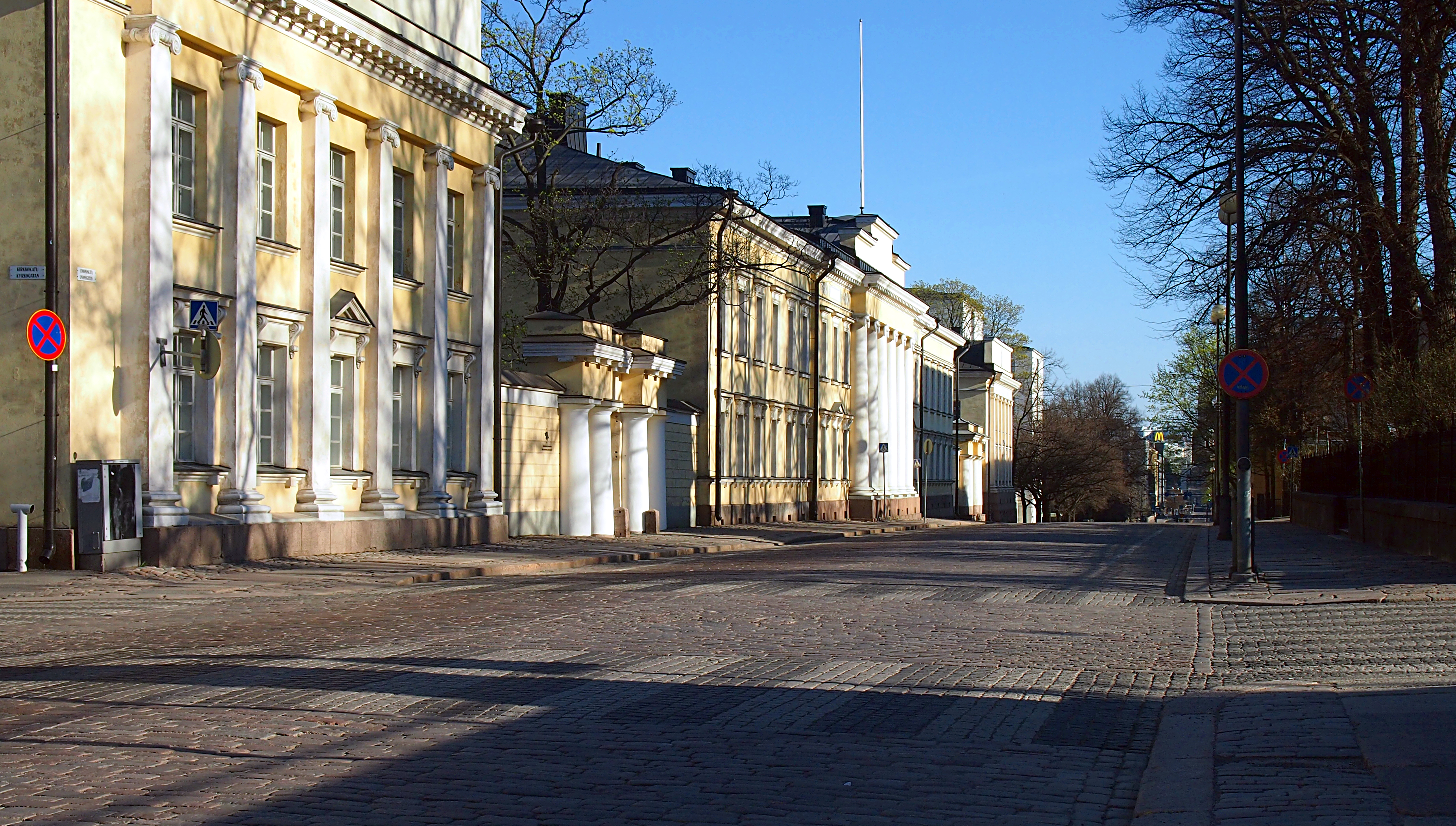 The street Unioninkatu in Helsinki, Finland. It was the main street of Helsinki until the 20th century.